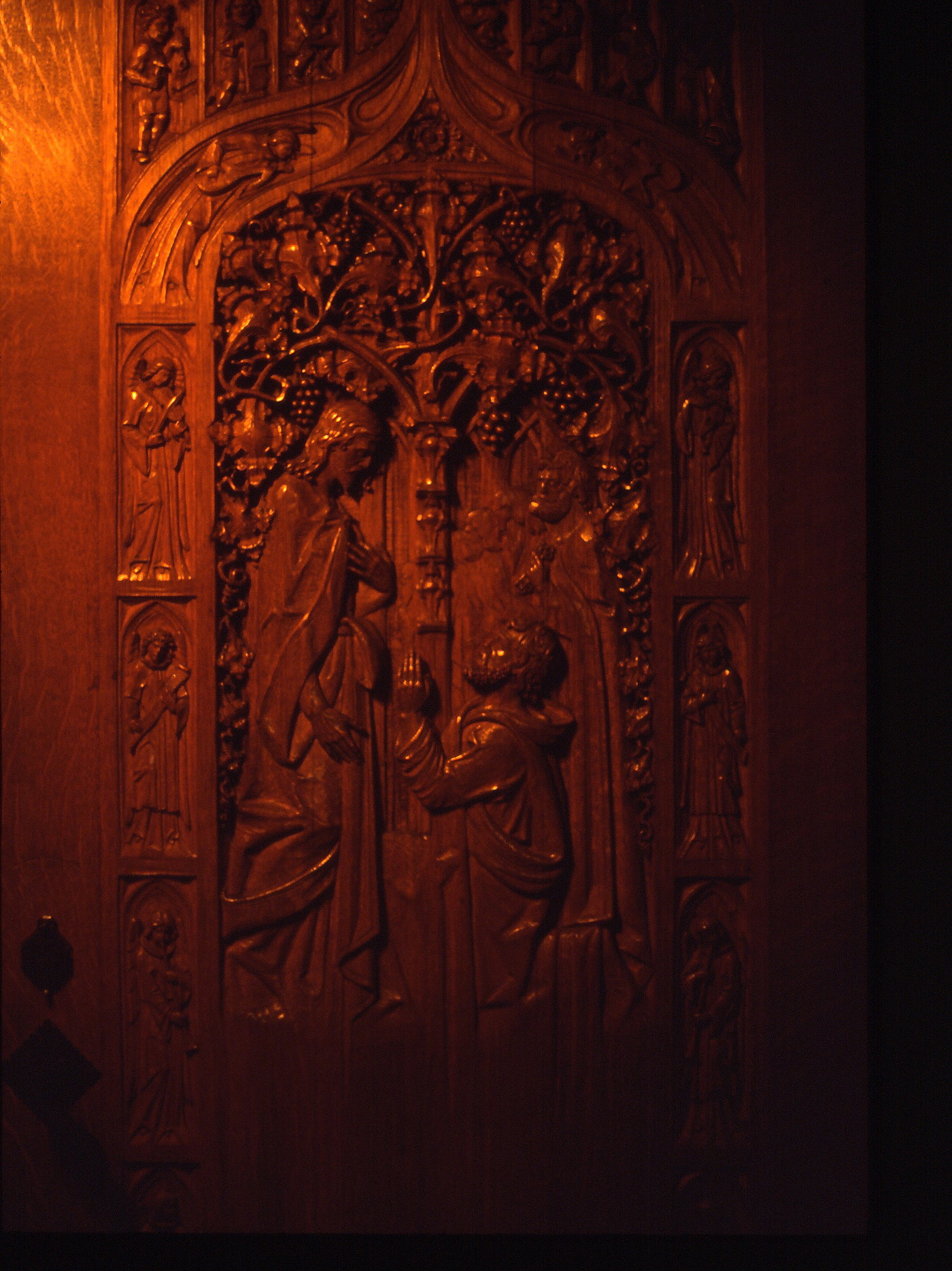 carving from the early 1920s by john Kirchmayer